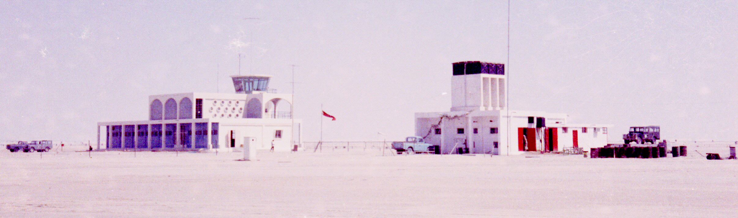 Dubai Airport fire station and terminal/control tower seen from the landside, early 1965.